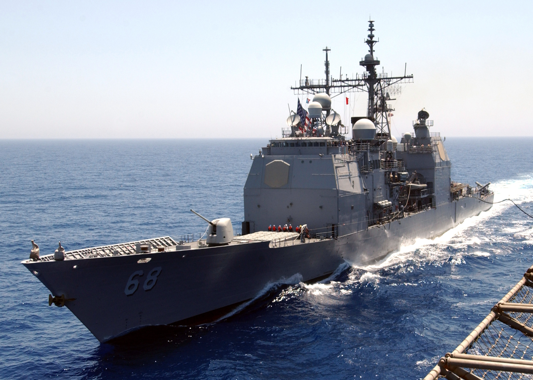 070505-N-6854D-003 MEDITERRANEAN SEA (May 5, 2007) - Ticonderoga-class guided missile cruiser USS Anzio (CG 68) conducts a fueling at sea with Nimitz-class aircraft carrier USS Dwight D. Eisenhower (CVN 69). Eisenhower and embarked Carrier Air Wing (CVW) 7 are on deployment in support of Maritime Security Operations (MSO). U.S. Navy photo by Mass Communication Specialist Seaman Apprentice Jon Dasbach (RELEASED)